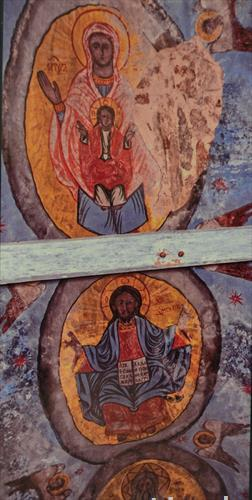 Saint Athanasius Church in Svekyani Fresco